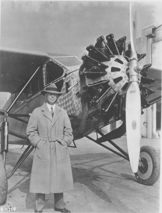 Catalog #: BIOK00214 Last Name: Kohler First Name: Walter J. Notes: Repository: San Diego Air and Space Museum Archive